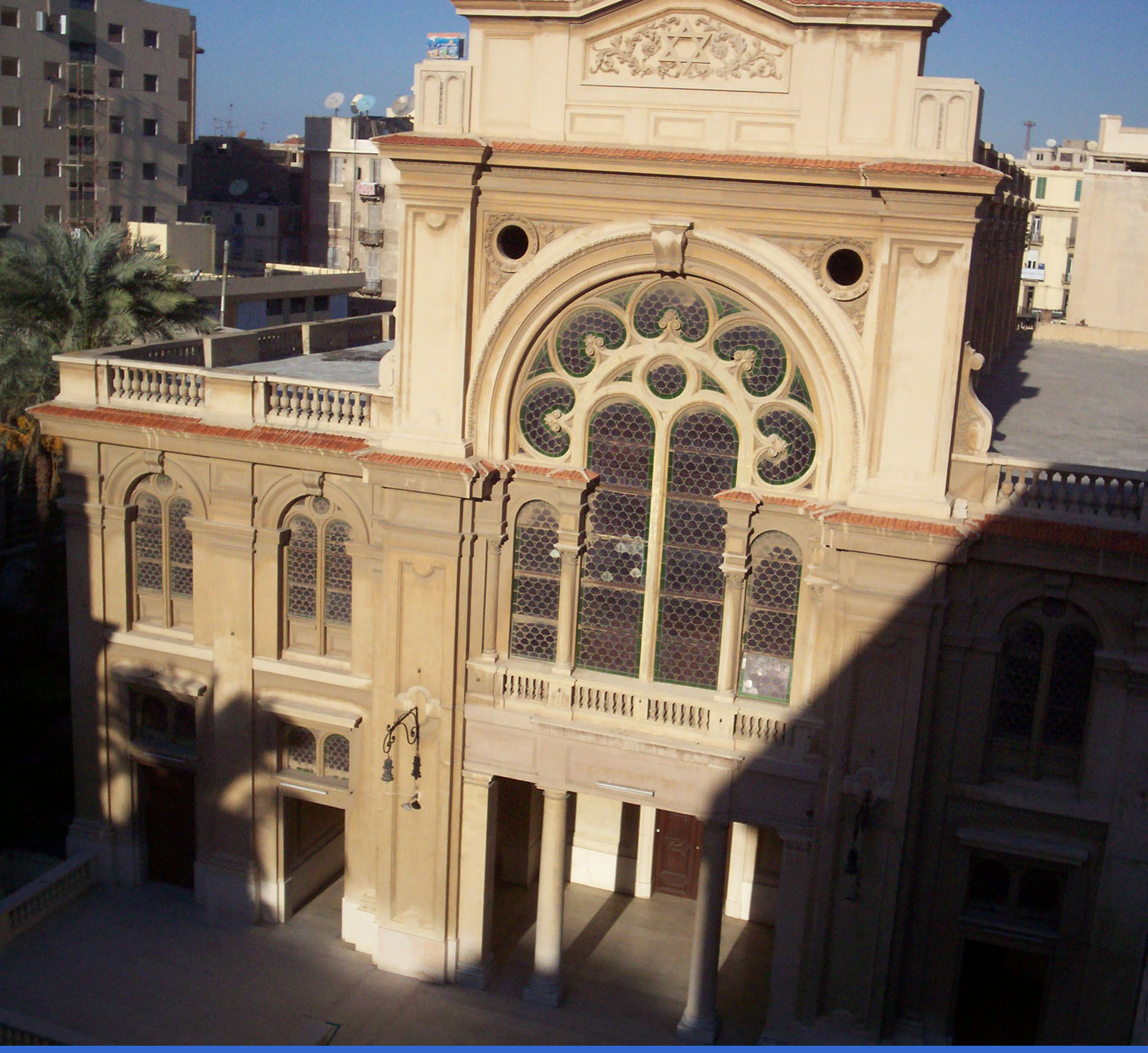 Eliyahu Hanavi Synagogue, located in Nabi Daniel Street, in Alexandria, Egypt.